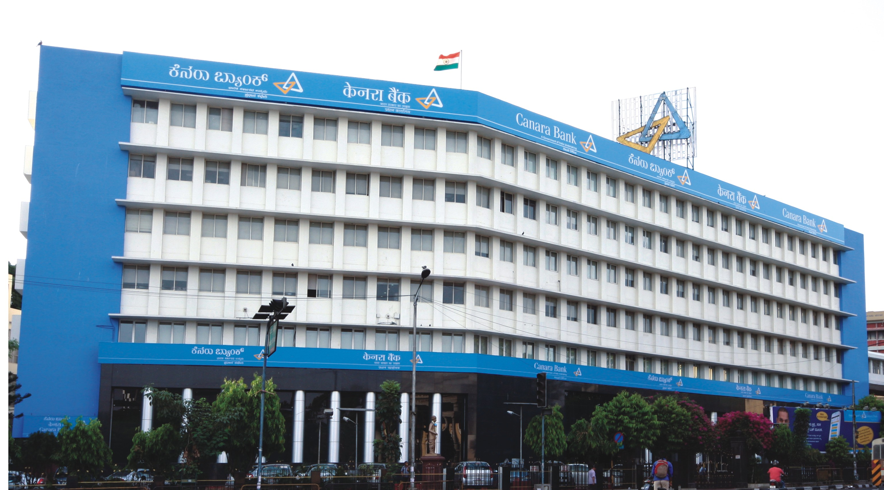 One of the iconic and most recognizable buildings in the city of Bengaluru, Karnataka